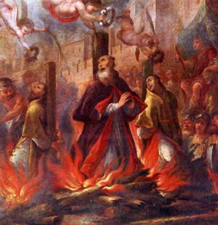 St. Fructuous, Augurius and Eulogius' martyrdom at Tarragona; Catalan painting of 18th century